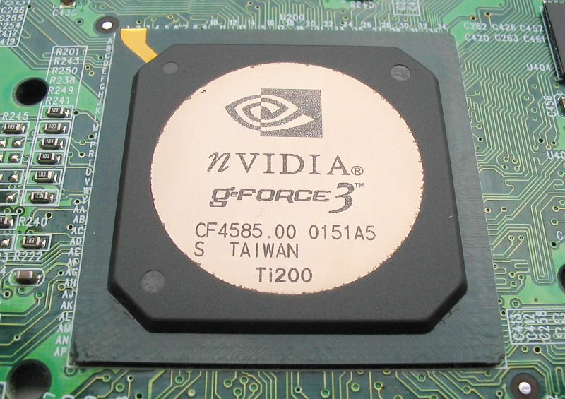 NVidia GeForce3 Ti 200 GPU (on Leadtek WinFast Titanium 200 graphic card).